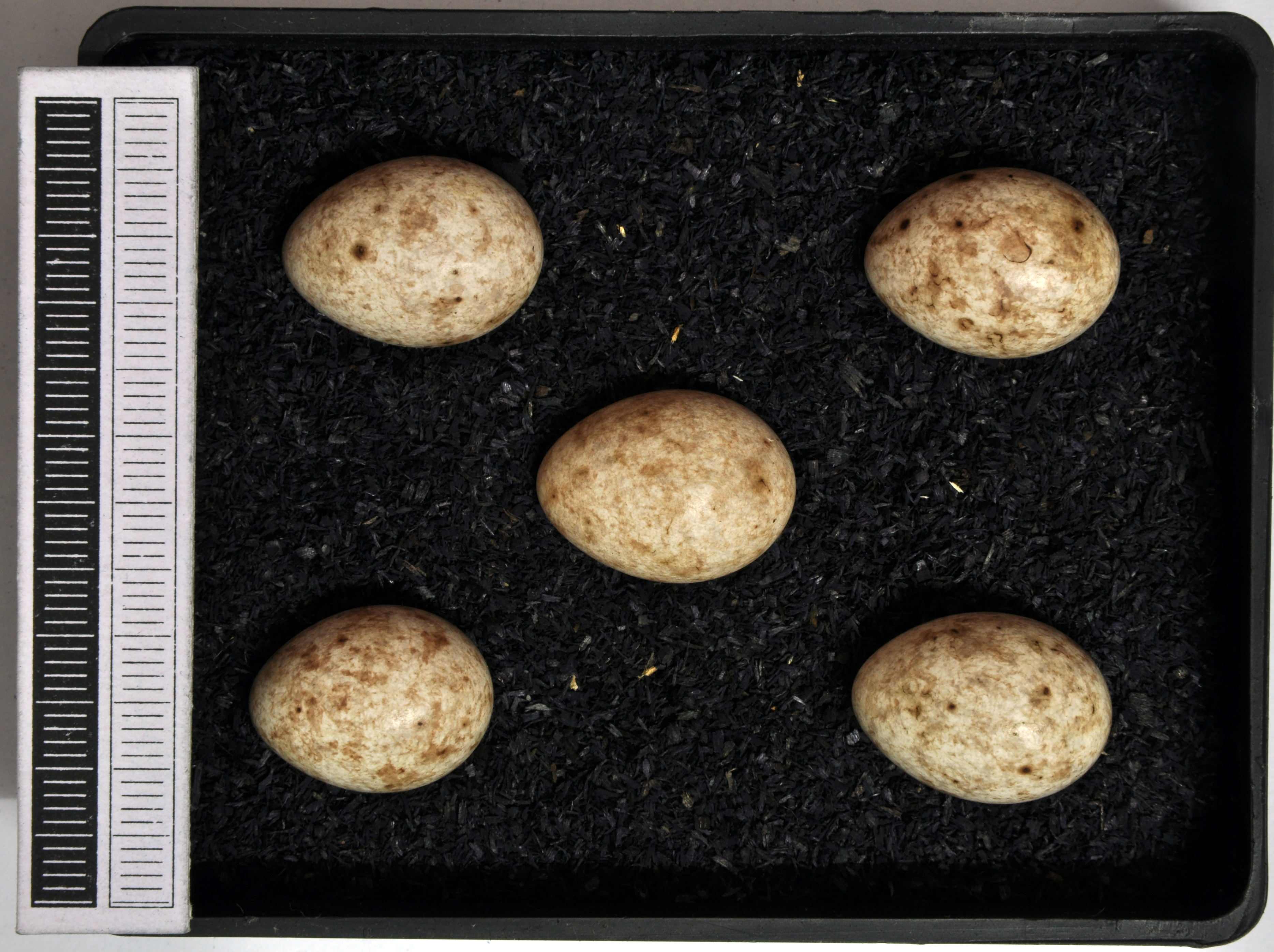 Eurasian blackcap Sylvia atricapilla, egg, Coll. Museum Wiesbaden, Origin: Wadern-Lockweiler, Germany, 14.06.1970, leg. W. Abelmann